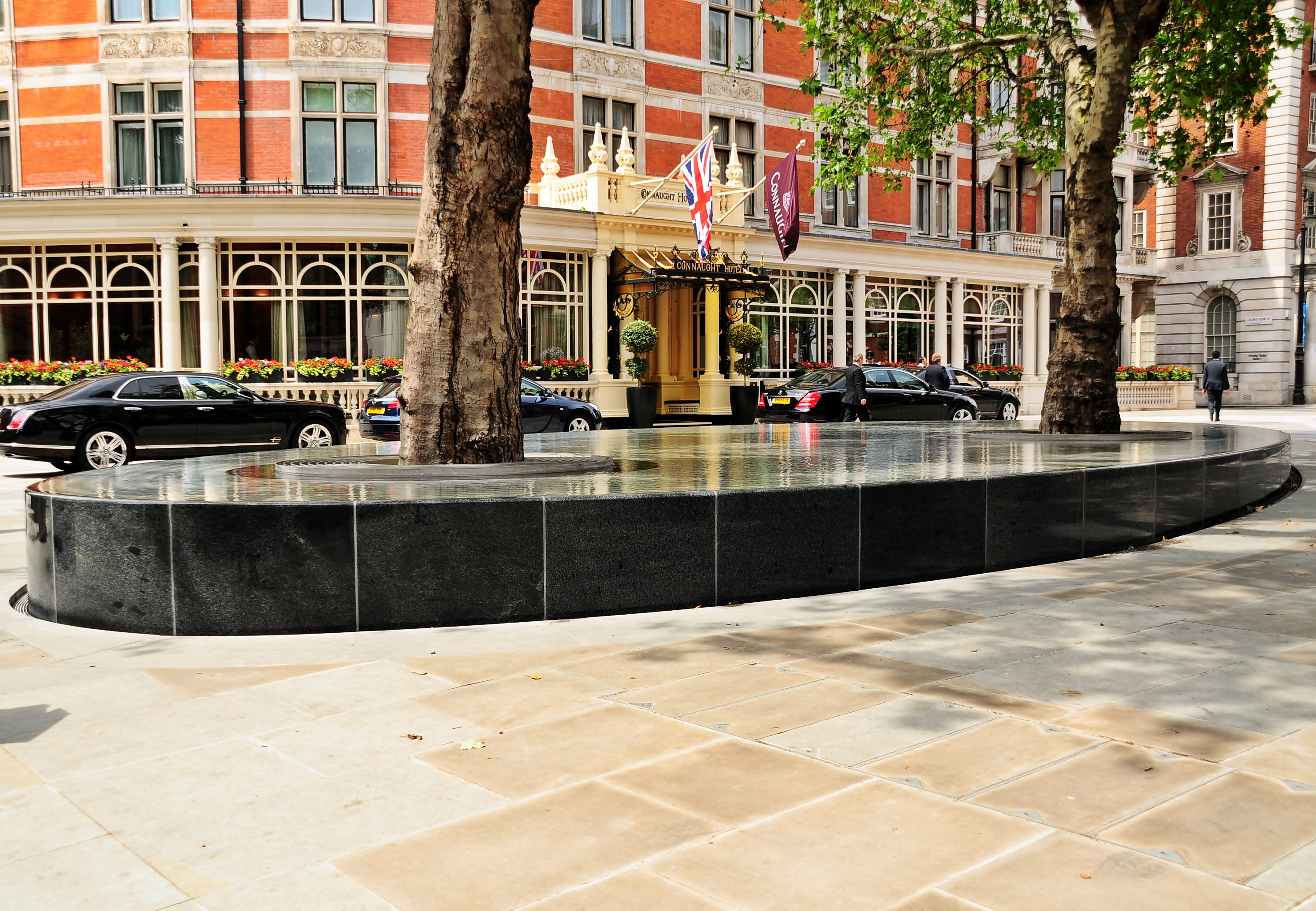 Water feature Silence on Mount Street in Mayfair, London. By Japanese architect Tadao Ando. 2011.